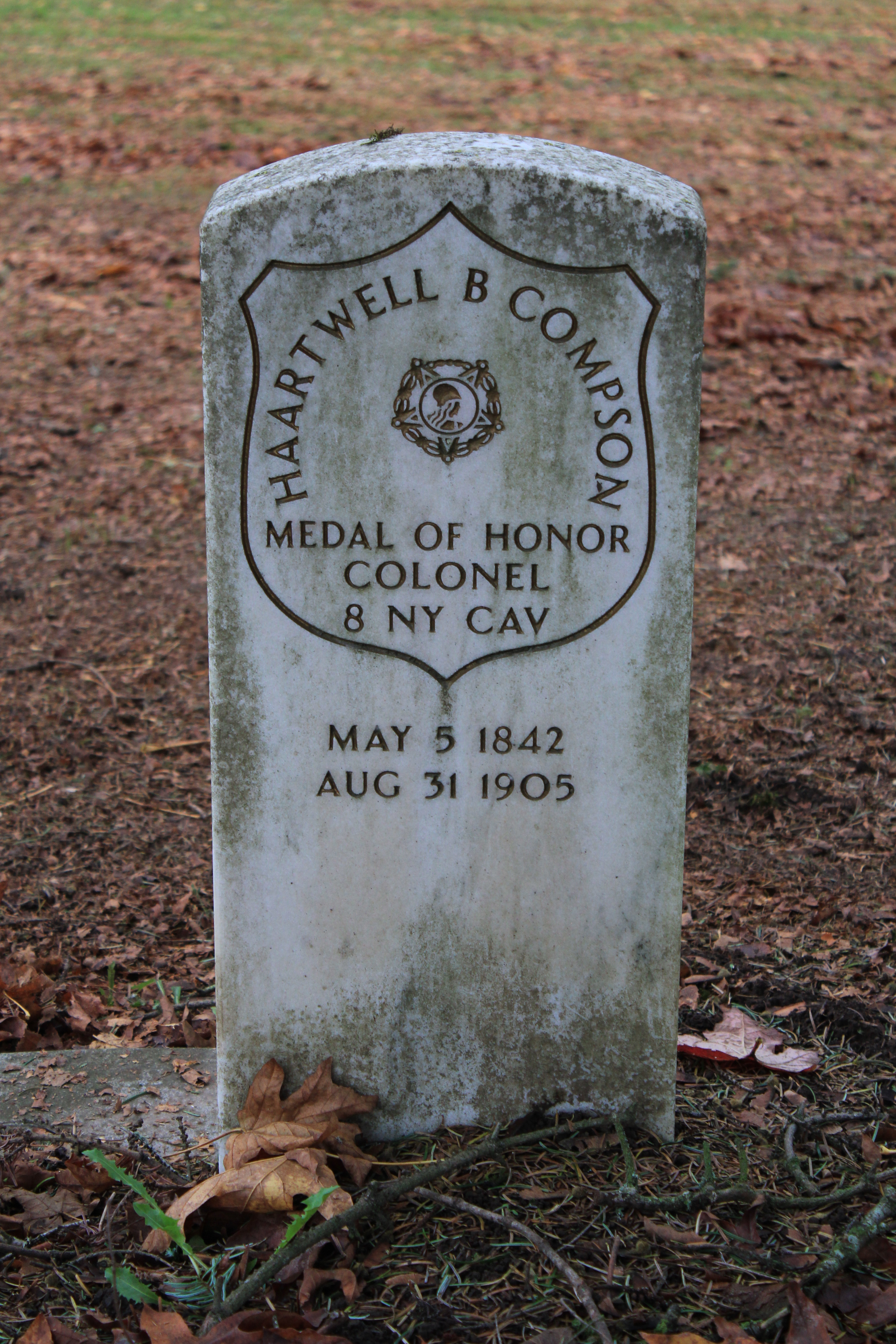 Gravestone for Hartwell B. Compson